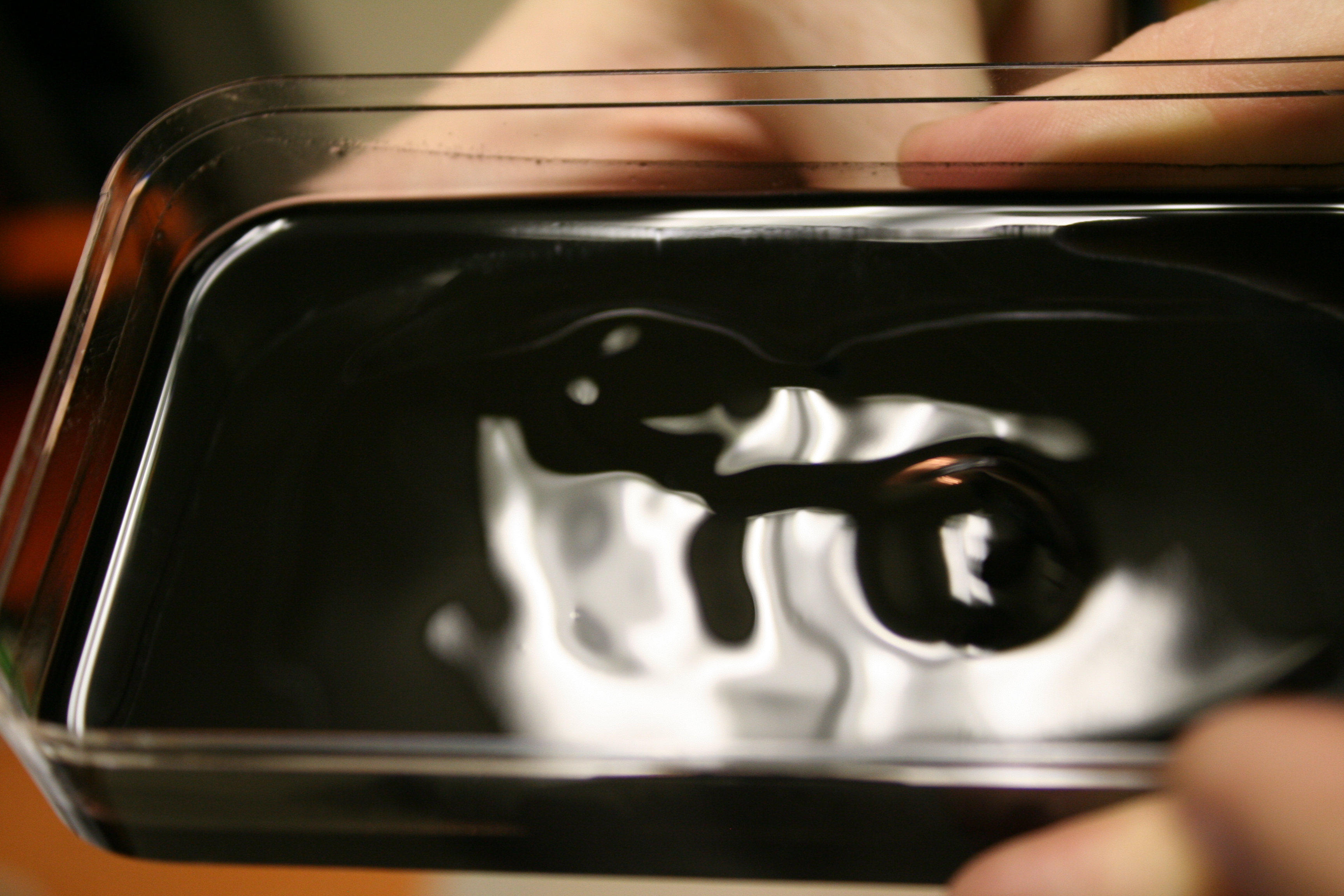 Using a rare earth magnet and homemade ferro fluid, I achieved a blob.